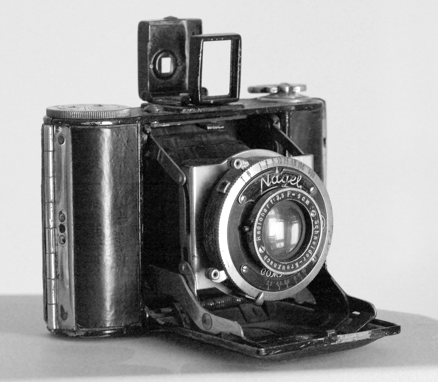 A Nagel Vollenda 48 made 1929 - 1937 half frame 127 camera. Schneider Radionar 50mm f 3.5 lens and Compur 1-300 shutter